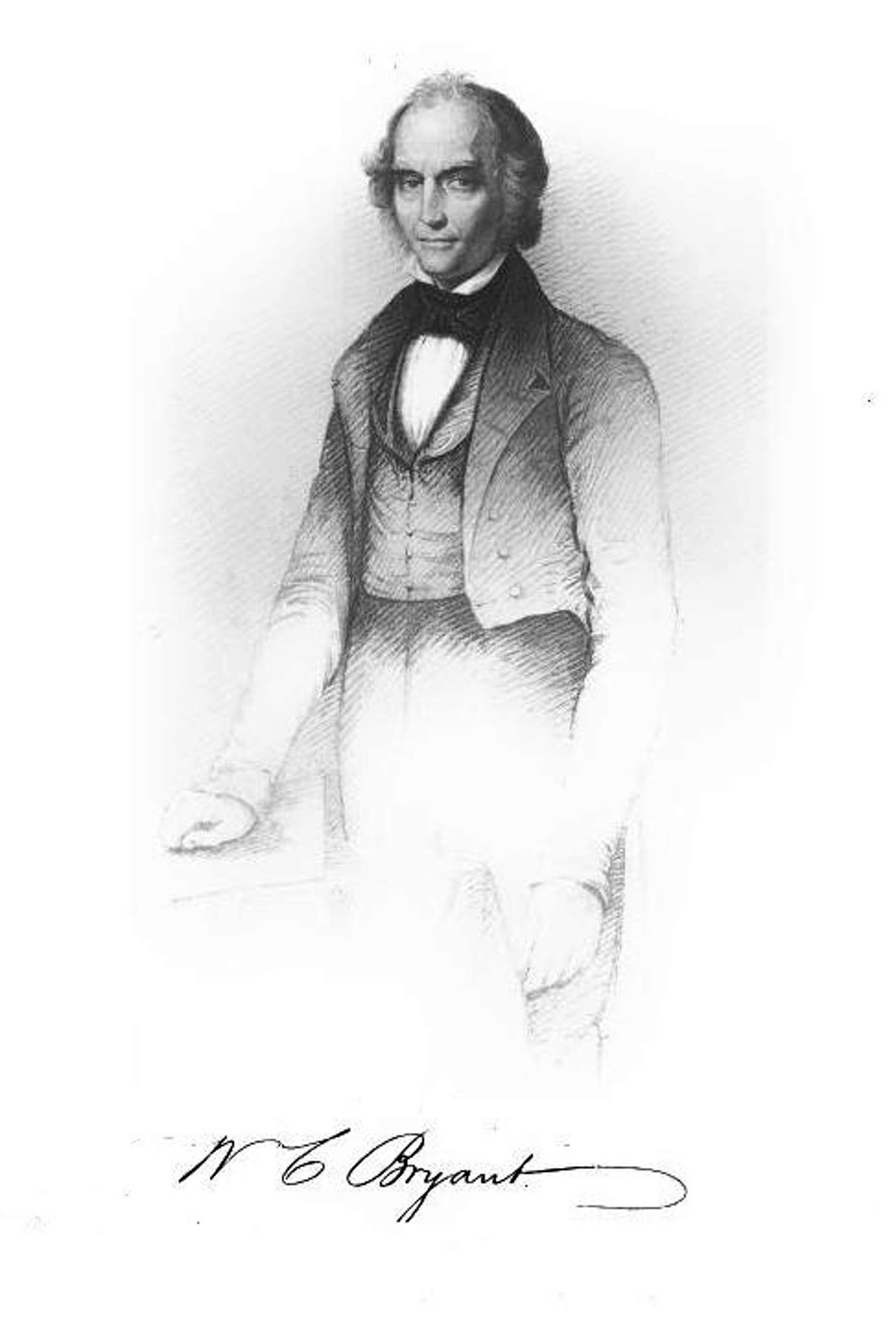 Engraving of William Cullen Bryant – no facial hair.